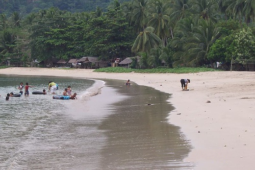 Pugad Beach Resort